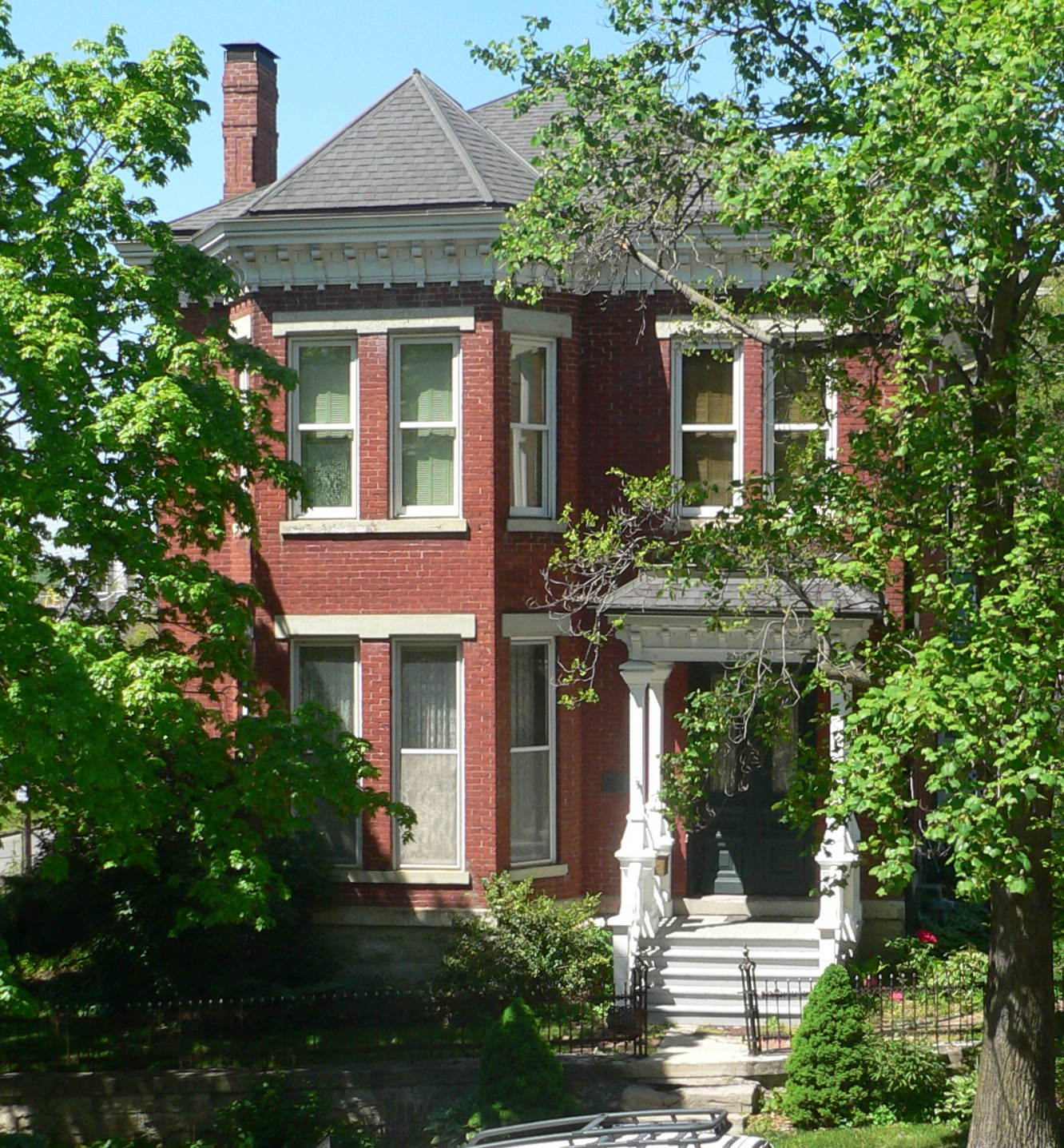 Robert L. Pease house, located at 203 N. 2nd Street (northwest corner of 2nd and Kansas Streets) in Atchison, Kansas; seen from the east, from 2nd.